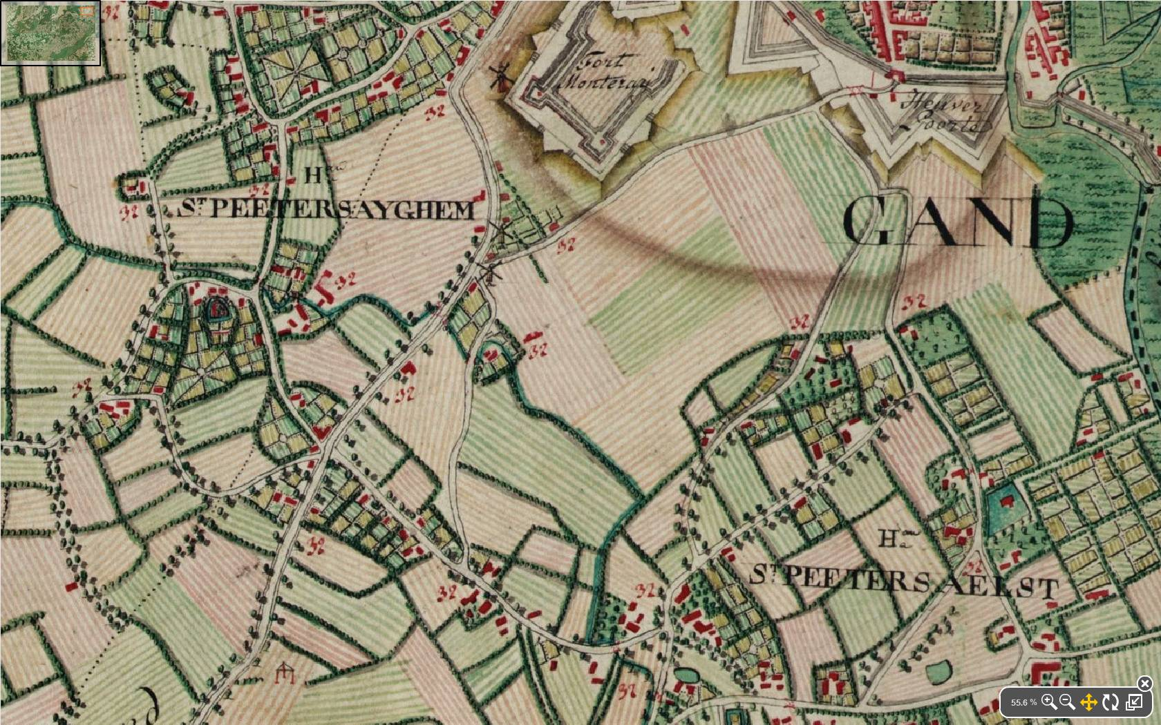 Sint-Pieters-Aaigem_en_Sint-Pieters-Aalst,_Ghent,_Belgium_op_de_Ferrariskaart,_1775.jpg